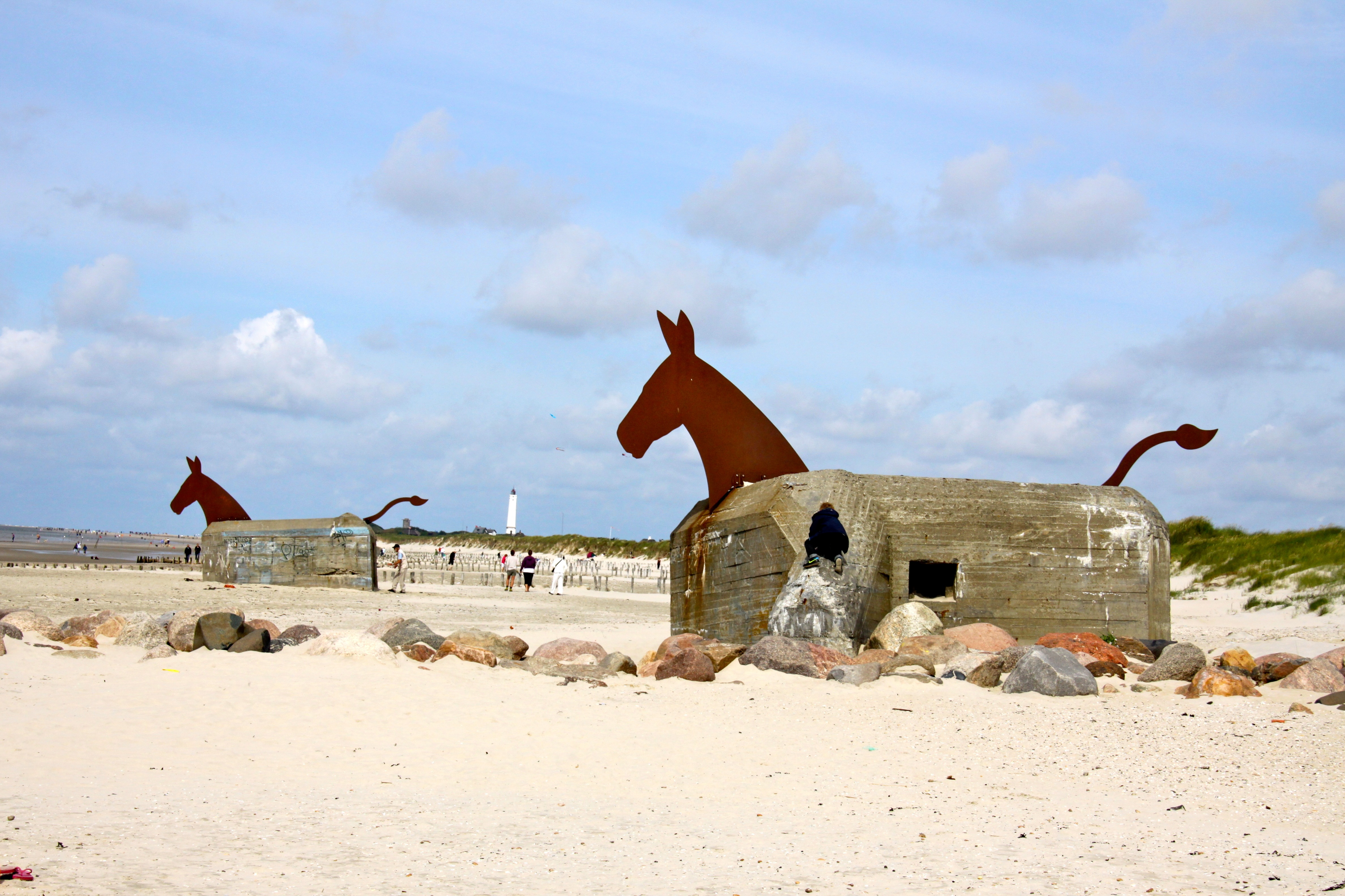 The sculpture Bunker/Mule (1995) by Bill Woodrow, which consists of concrete bunkers along the beach at Blåvand-Oksby, Denmark (part of the Atlantic Wall), mounted with horses' heads and tails cut from steel. Depending on the tide, the sculptures are either on the shore or in the sea.